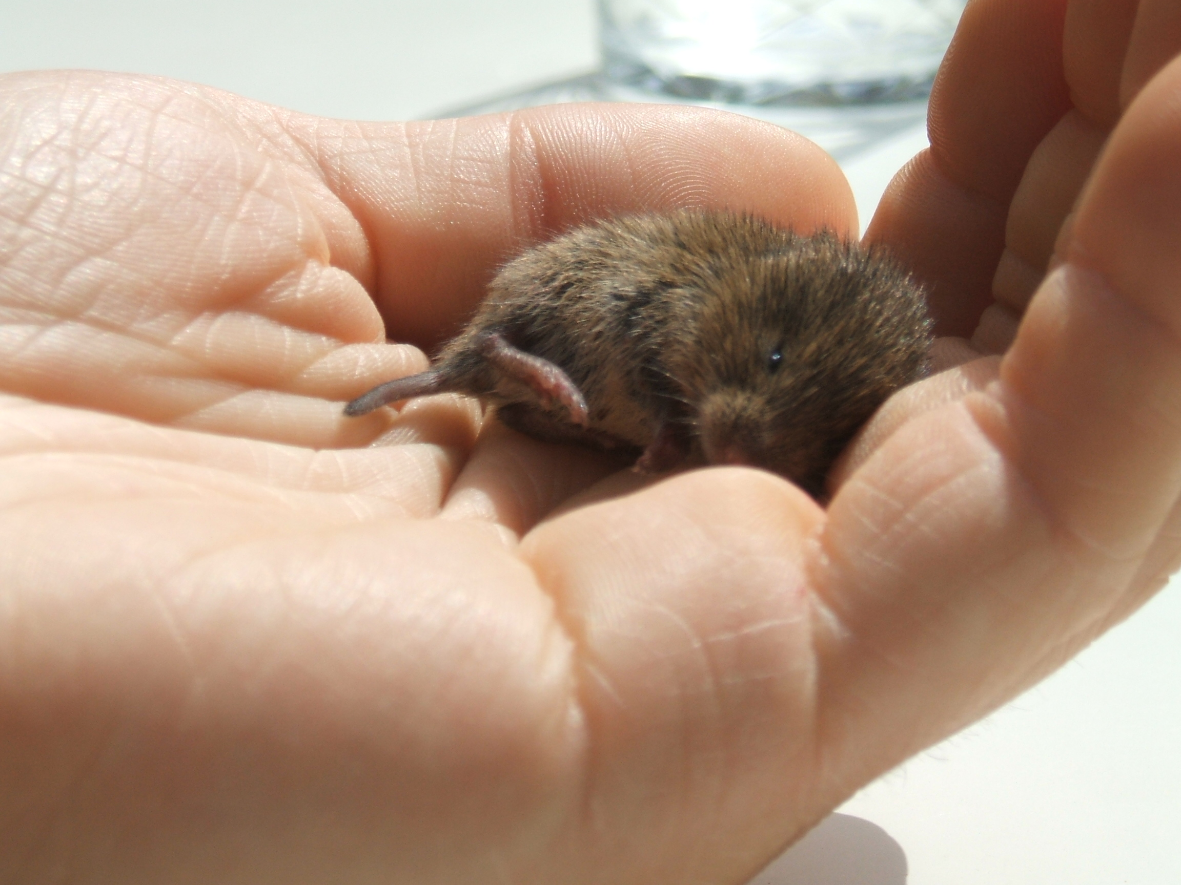 Microtus arvalis in a hand